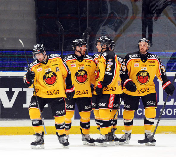 Players of Luleå HF celebrating in a Swedish Elite League ice hockey game against AIK inside Hovet. Luleå HF won, 3-2 following a penalty shootout.